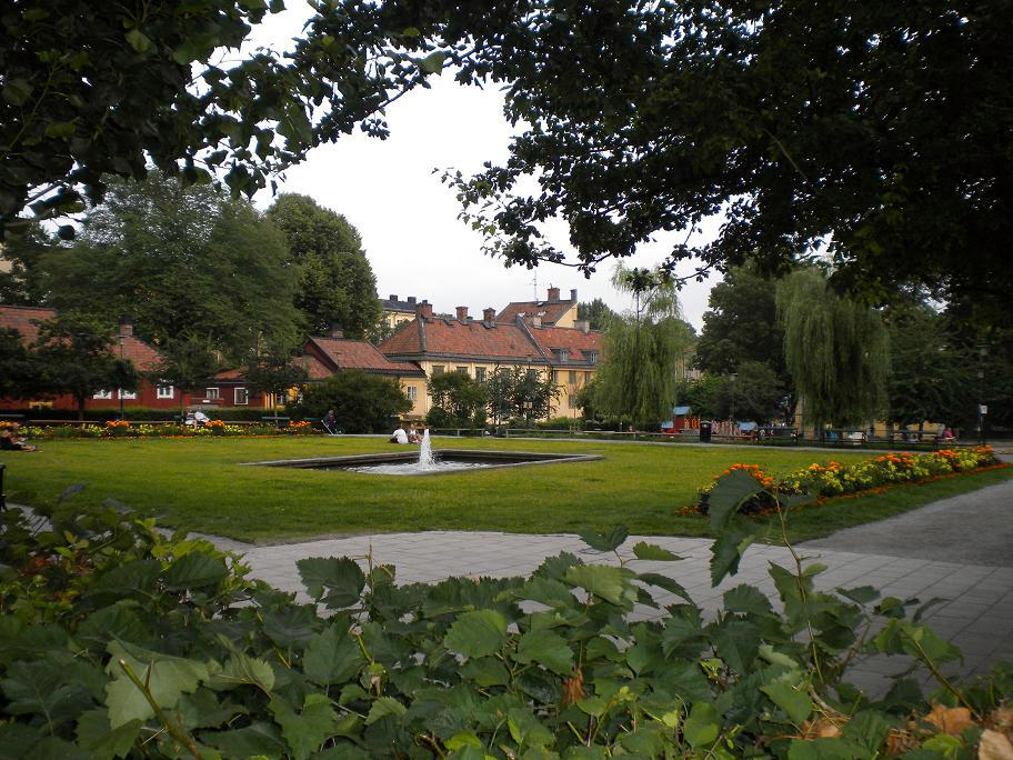 New Place Nytorget on the Southern Isle (Södermalm)Place: Stockholm, Sweden